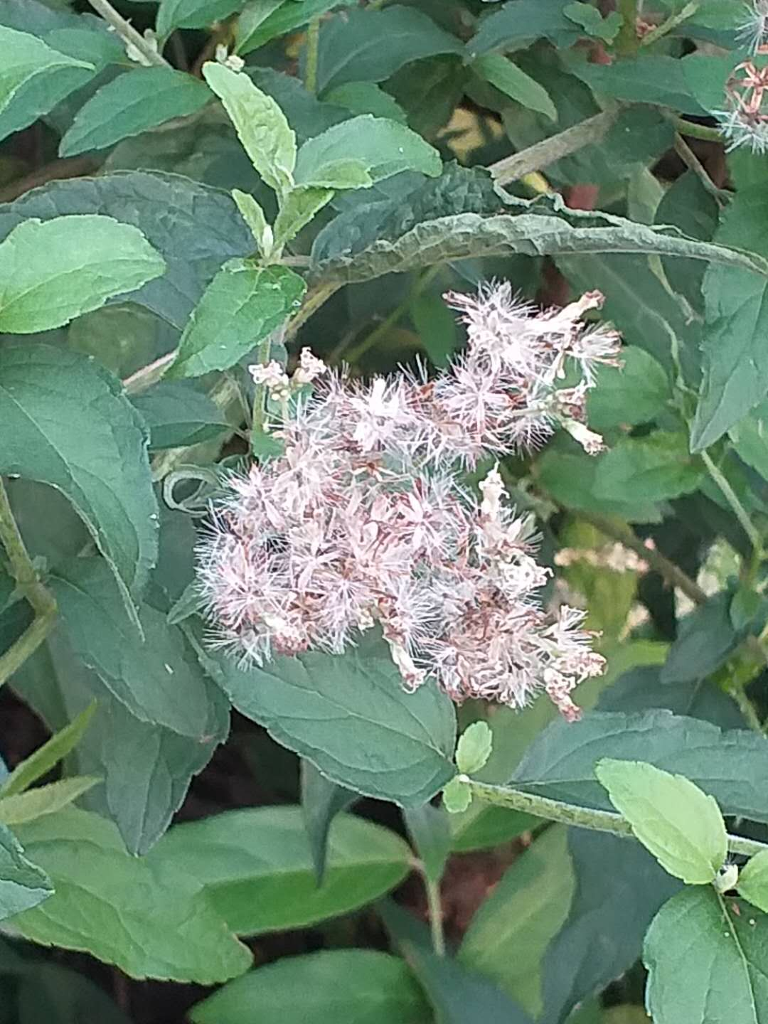 Pappus of Eupatorium formosanum , 2018 Taichung World Flora Exposition.